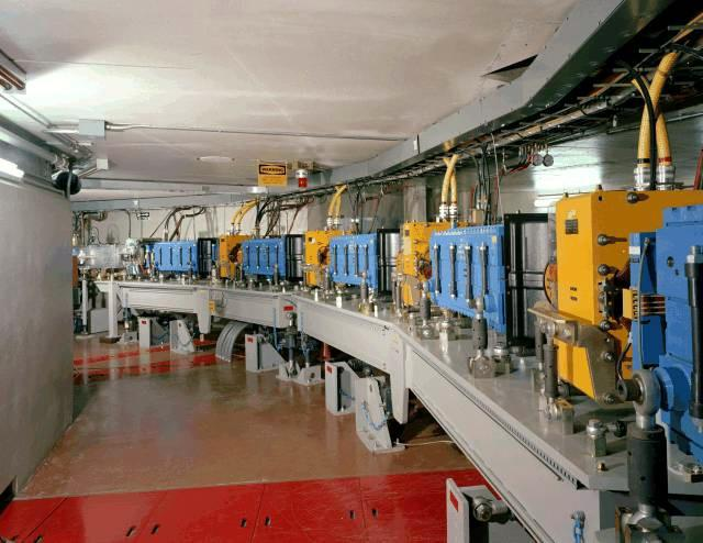 PART OF THE ADVANCED LIGHT SOURCE BOOSTER SYNCHROTRON AT LAWRENCE BERKELEY NATIONAL LABORATORY. THE CIRCULAR BOOSTER SYNCHROTRON GIVES A BOOST FROM AN ACCELERATING CHAMBER TO THE ELECTRONS EACH TIME THEY GO AROUND. IN LESS THAN ONE SECOND, THE ELECTRONS MAKE 1,300,000 REVOLUTIONS, TRAVELING AT 99.999994% OF THE SPEED OF LIGHT WITH AN ENERGY OF 1.5 BILLION ELECTRON VOLTS AND ARE READY TO BE TRANSPORTED TO THE STORAGE RING. For more information or additional images, please contact 202-586-5251.